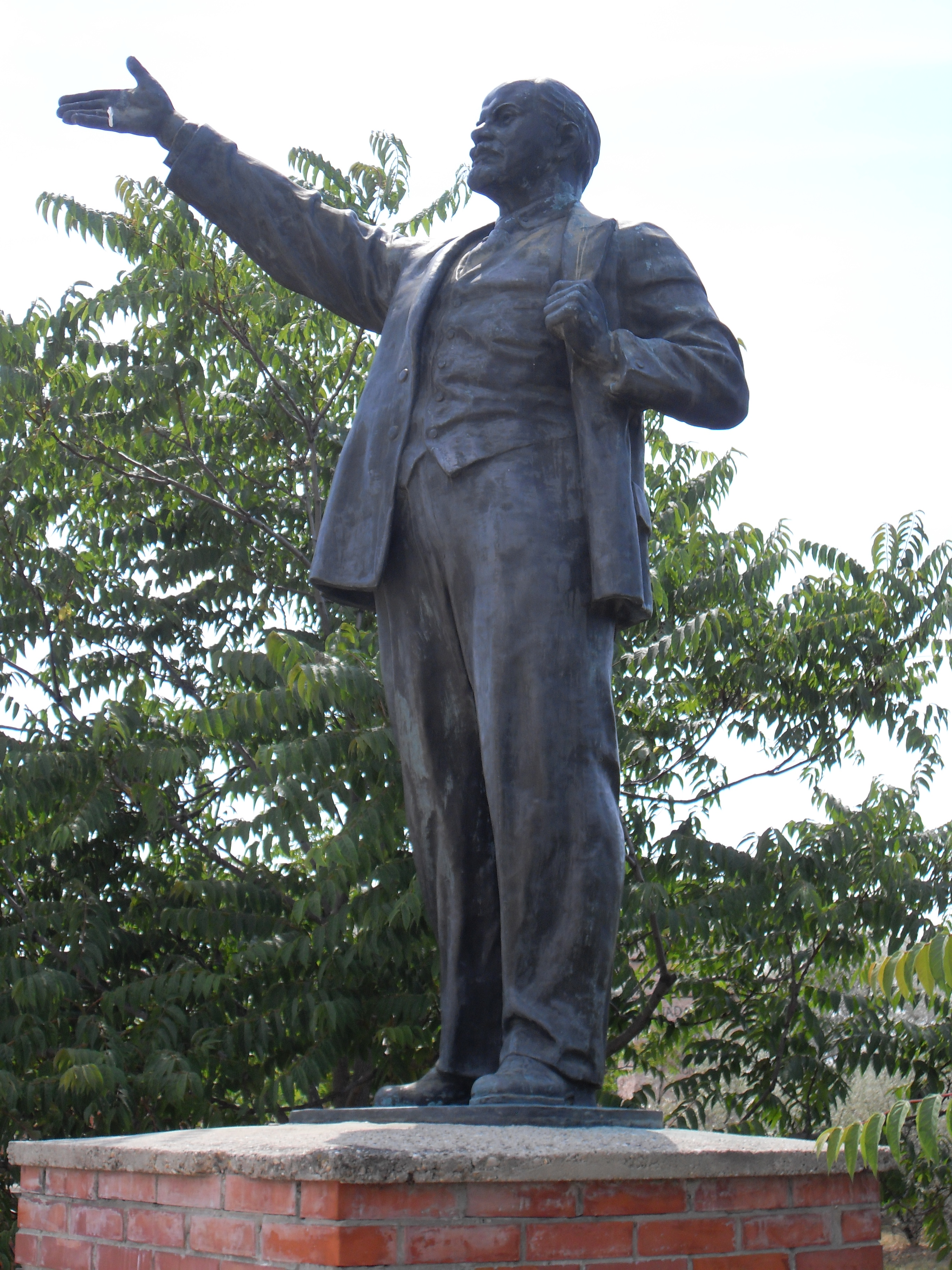 Lenin statue from outside the "Csepel ironworks" factory (Csepel was in the late nineteenth century an intensely industrial area, with manufacturies and soviet heavy machinery plants). The metal statue is about 2 meter 50 cm high and was originally located in Csepel Island, the working class district and industrial area located south of Budapest, in front of the factory complex called "Csepel Muvek" (Csepel Works), which was the flagship of the Hungarian heavy industry. The statue of Lenin with his outstretched right hand was installed in Budapest in 1958 at Khrushchev's suggestion but was removed in 1989. It was not untill 1996 that the statue was again to see in Budapest, after the factory donated it to the Memento Park.